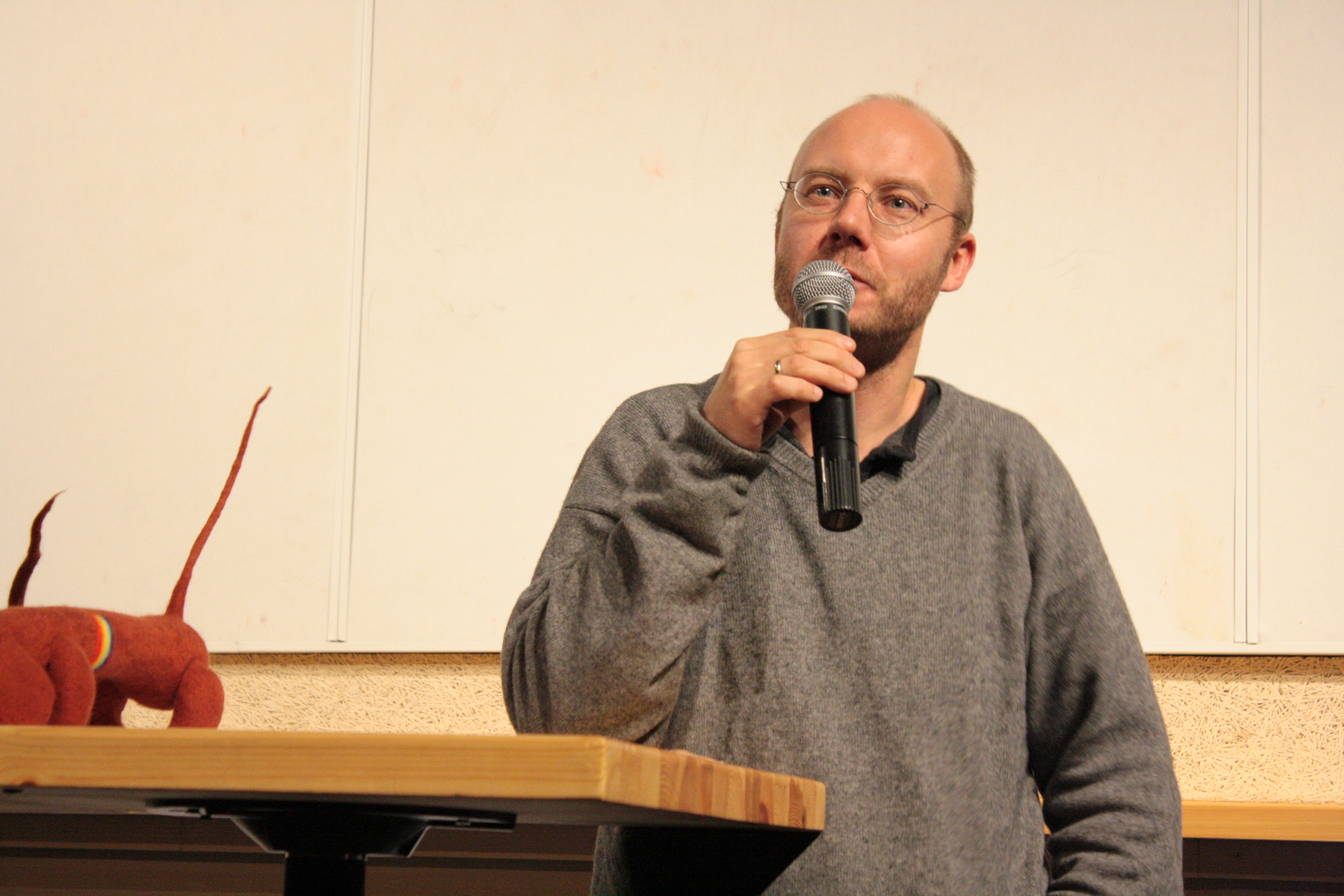 Antuan Kattyn. International Gay and Lesbian Film Festival «Side by Side» 2010